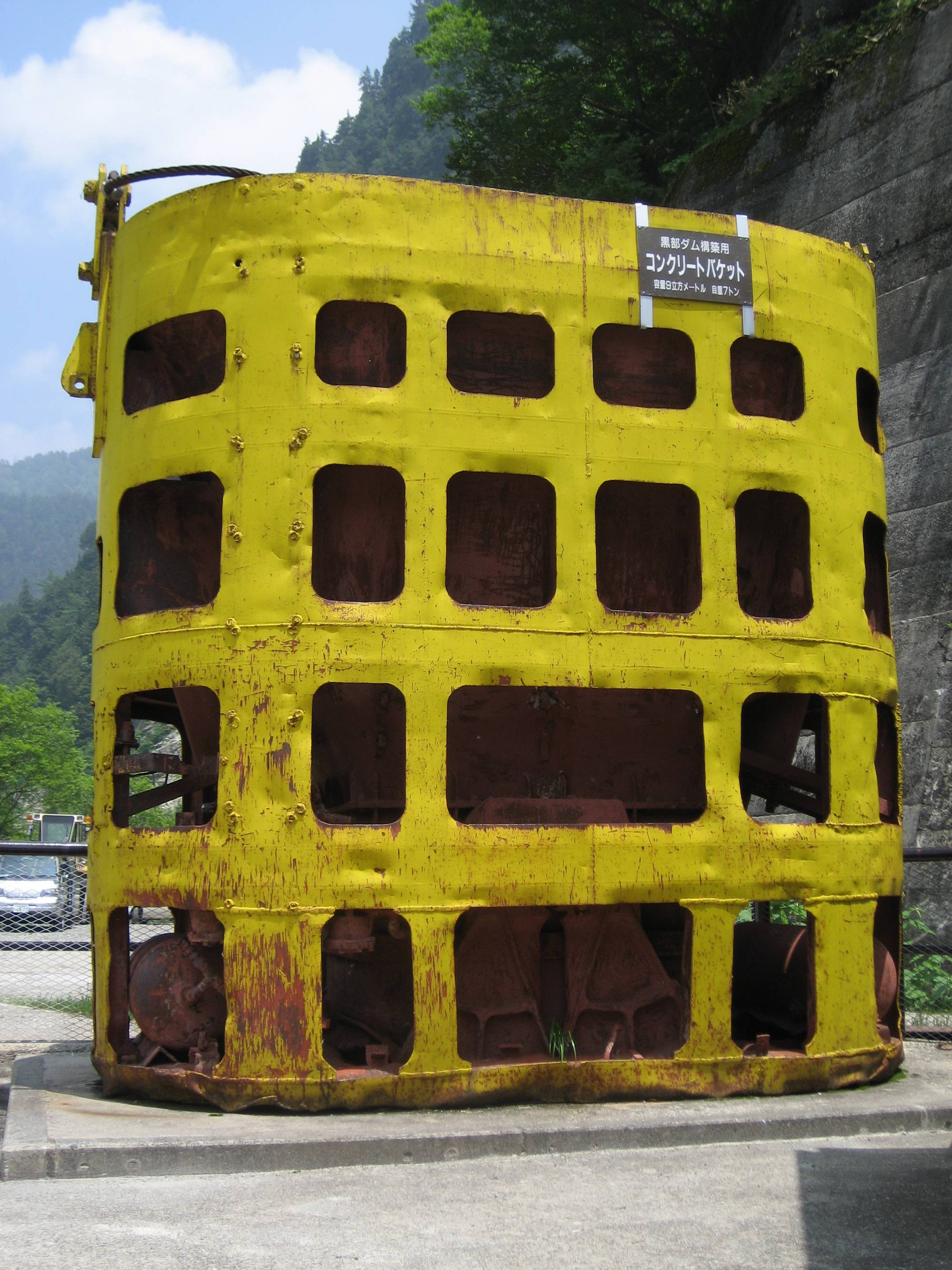 Kurobe Dam (黒部ダム) in Tateyama Town, Toyama prefecture, Japan.